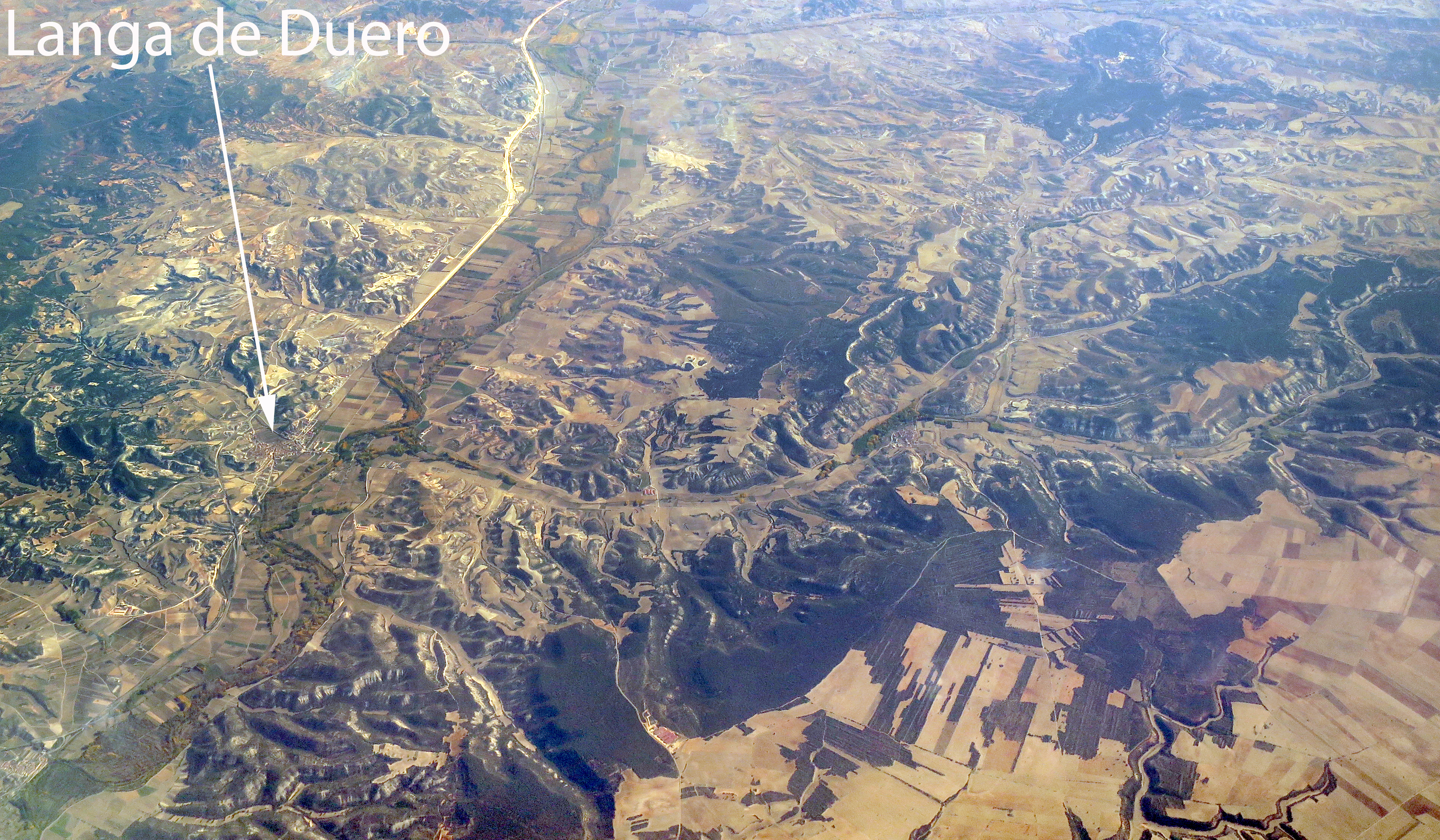 An aerial view of the part of the course of the Douro river (El Duero) through Soria in Spain, including the town of Langa de Duero.